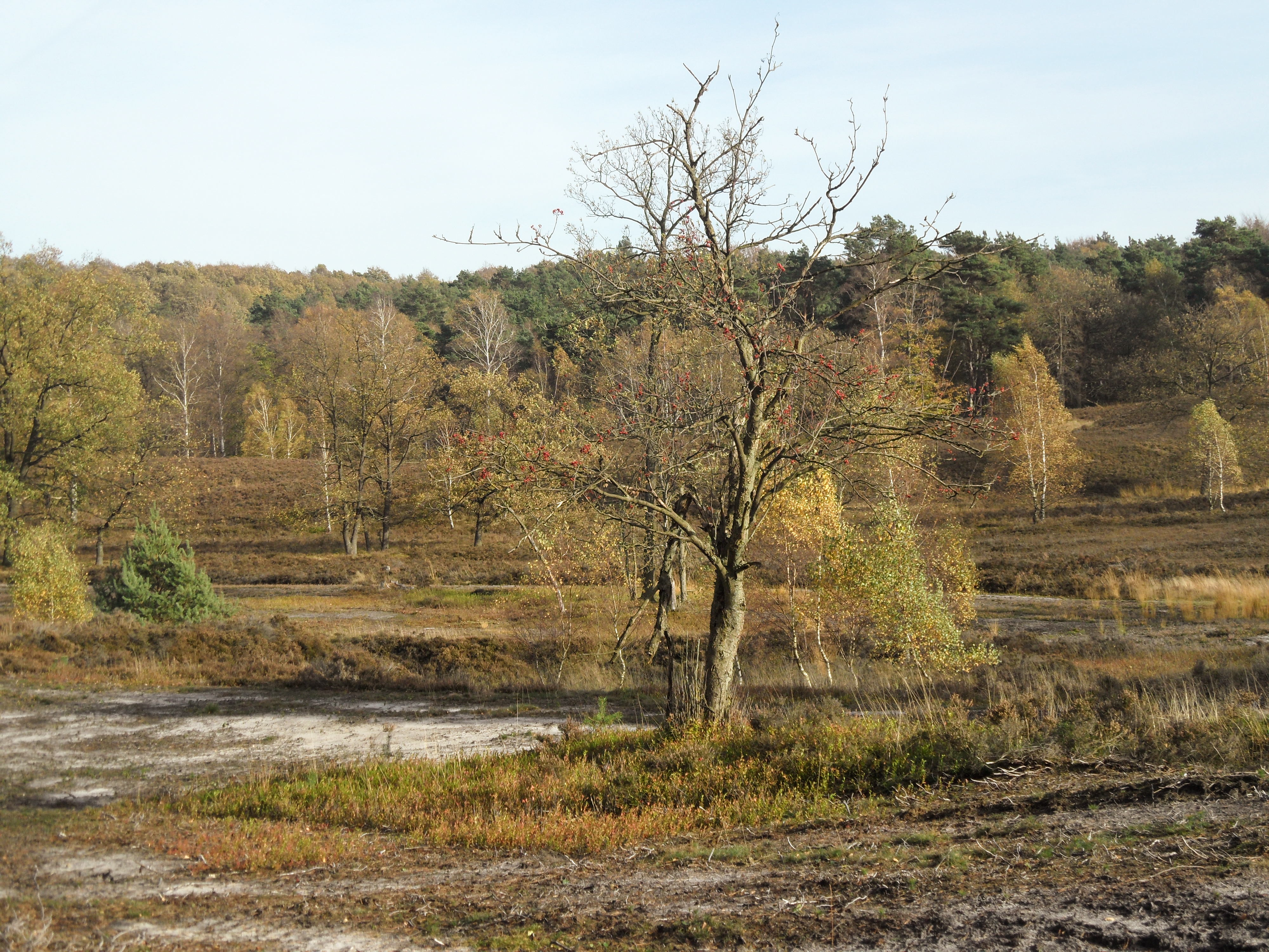 Tree in the Fischbeker Heide in autumn